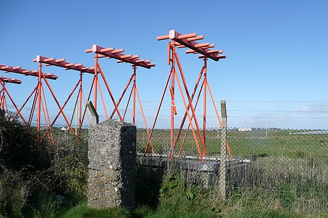 Galway airport The approach markers at the western end of the runway.